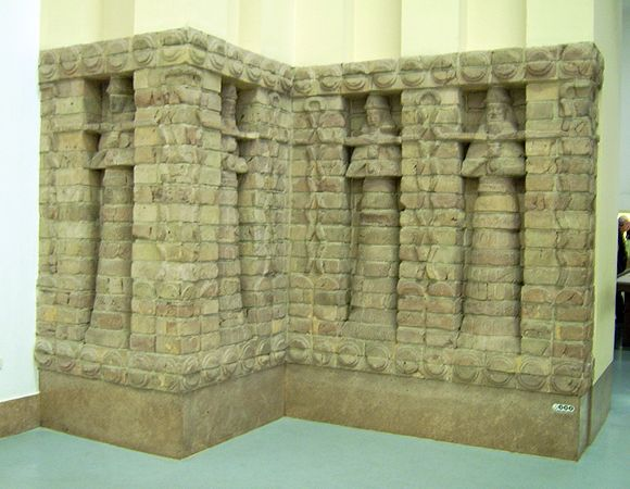 innana temple of Karaindash from Uruk.